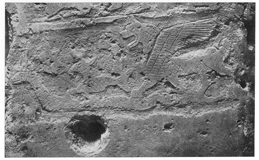 Detail of kudurru of Marduk-apla-iddina I (34th Kassite king of Babylon ca. 1171–1159 BC (short chronology)), BM 90850